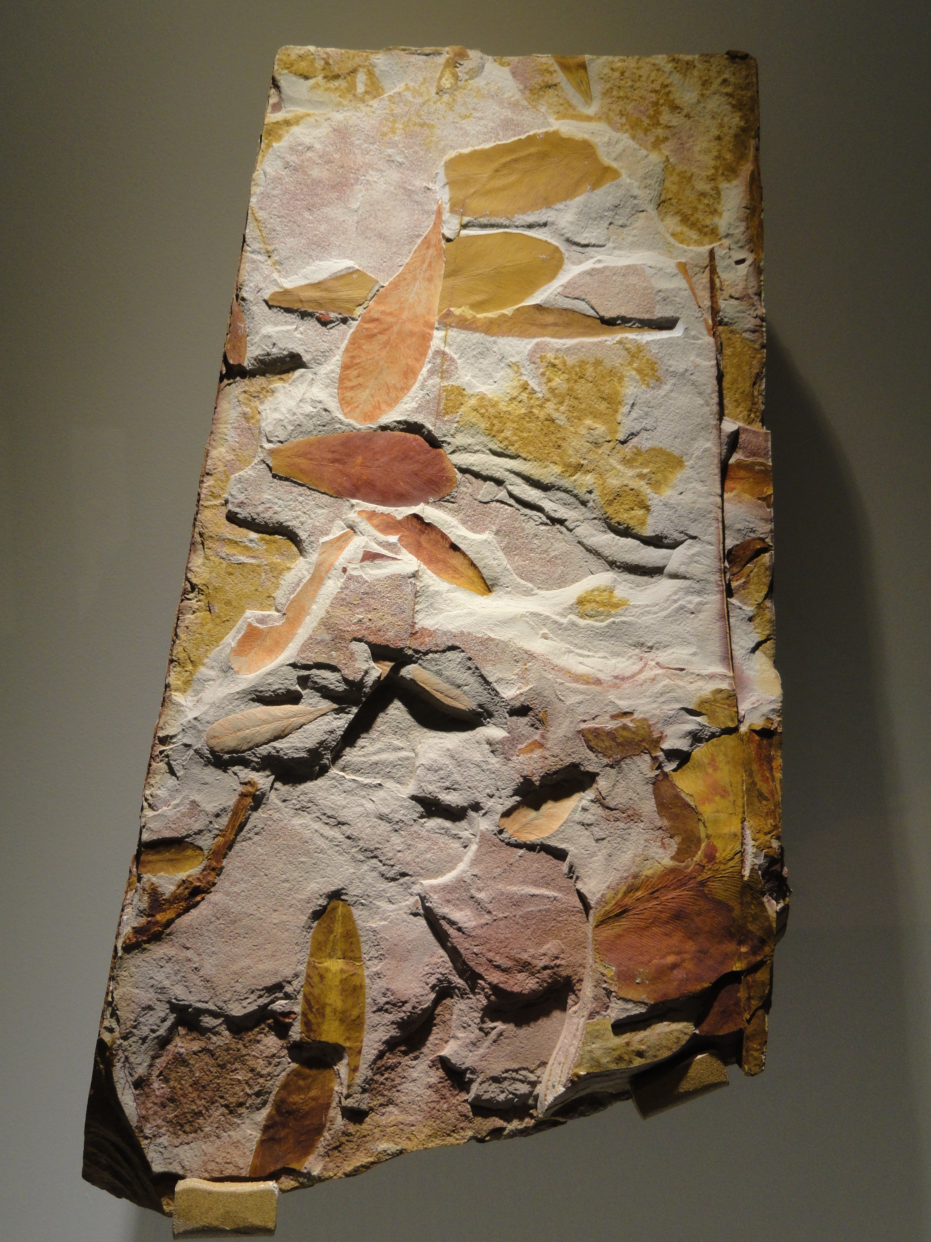 Exhibit in the Houston Museum of Natural Science, Houston, Texas, USA.